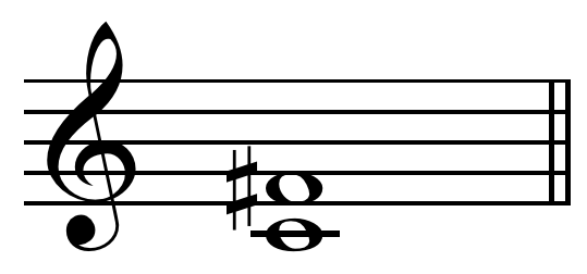 Augmented fourth on C = F♯. Just: 25:18 = 568.72 cents. Equal-tempered: 26/12:1 = 600 cents. Created by Hyacinth (talk) using Sibelius 5.